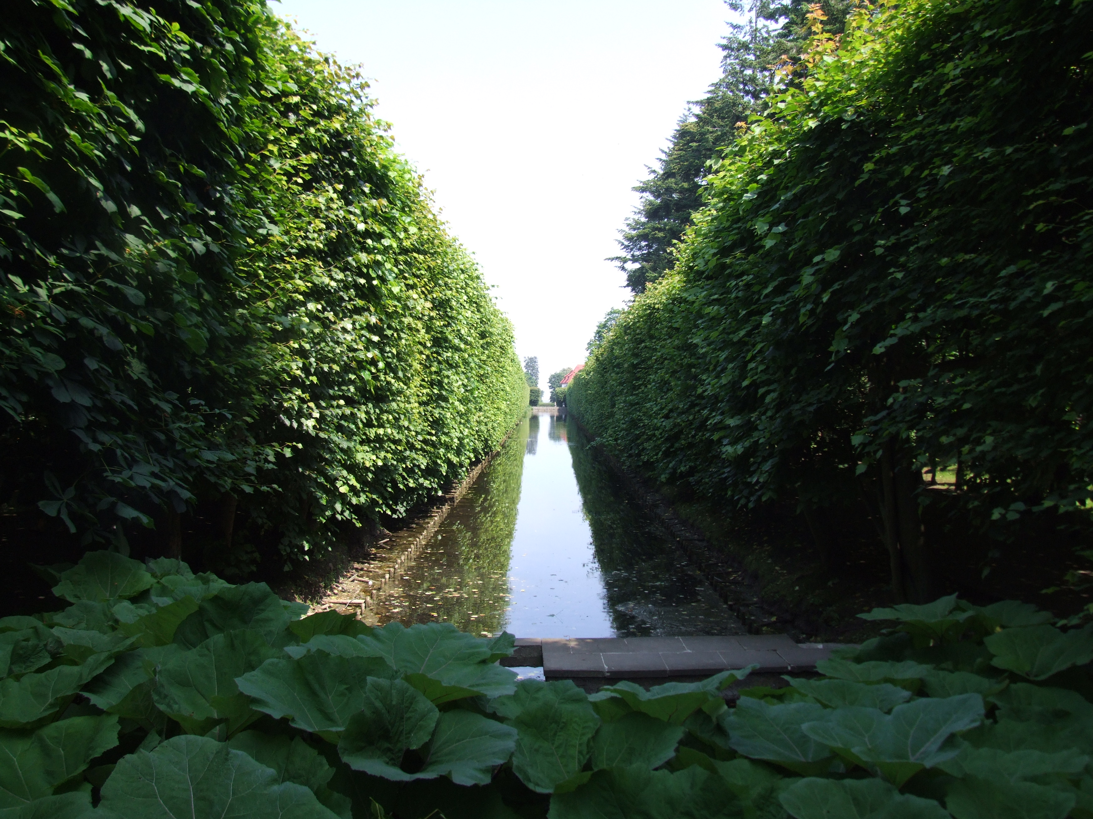 Adam Mickiewicz Park in Oliwa.